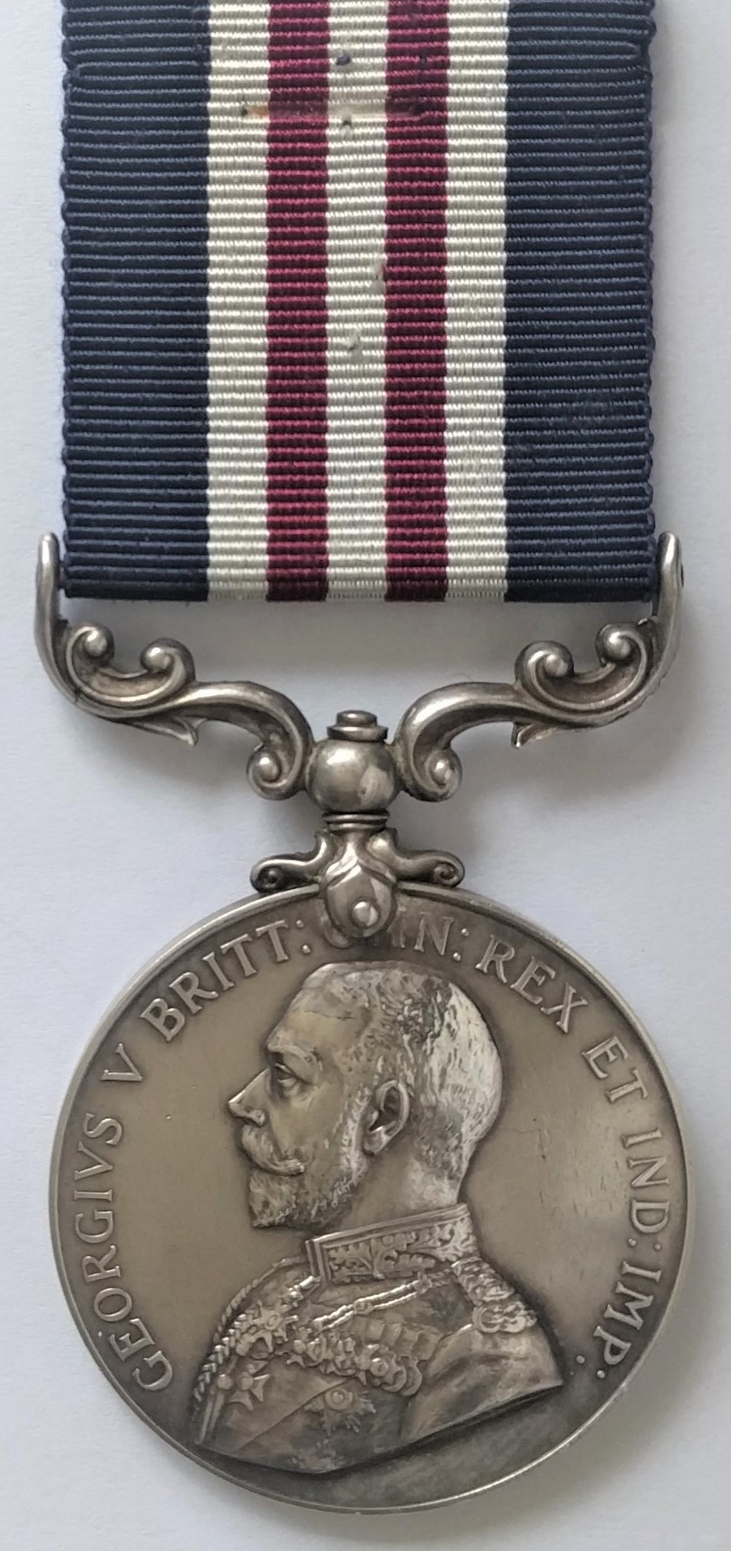 British and Commonwealth bravery medal, version awarded in World War I